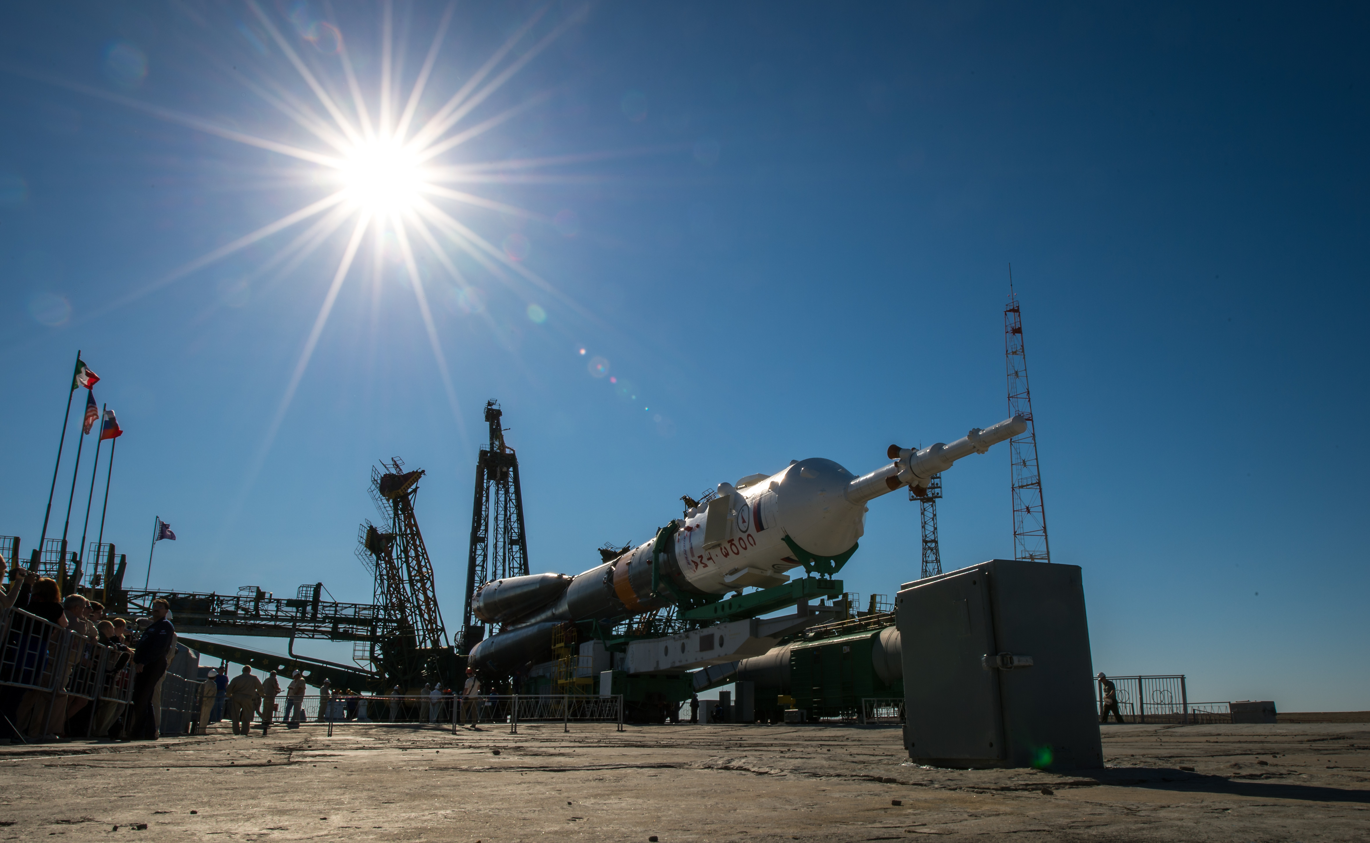 The Soyuz TMA-09M spacecraft is seen after arriving at the Baikonur Cosmodrome launch pad by train, Sunday, May 26, 2013, in Kazakhstan. The launch of the Soyuz rocket to the International Space Station (ISS) with Expedition 36/37 Soyuz Commander Fyodor Yurchikhin of the Russian Federal Space Agency (Roscosmos), Flight Engineers; Luca Parmitano of the European Space Agency, and Karen Nyberg of NASA, is scheduled for Wednesday May 29, Kazakh time. Yurchikhin, Nyberg, and, Parmitano, will remain aboard the station until mid-November.